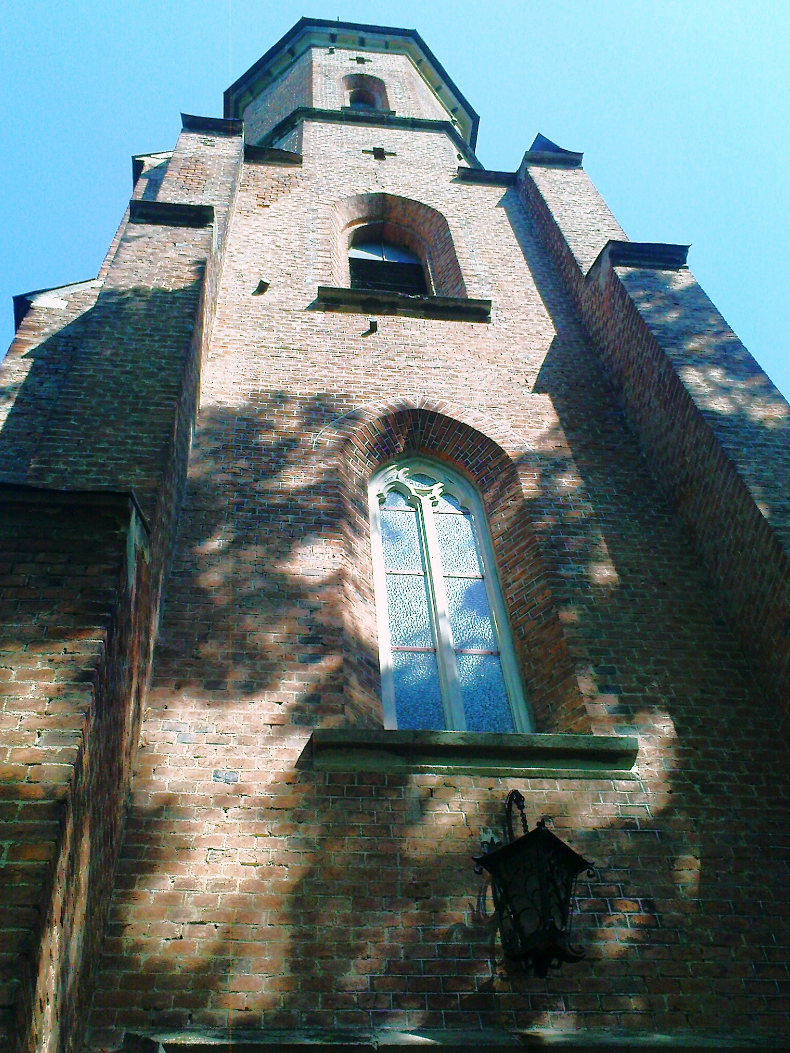 Parish Church of St. Martin the Bishop in Łużna